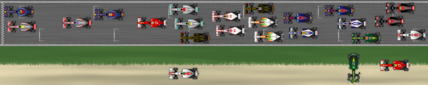 Race result of the 2011 Spanish Grand Prix in Barcelona